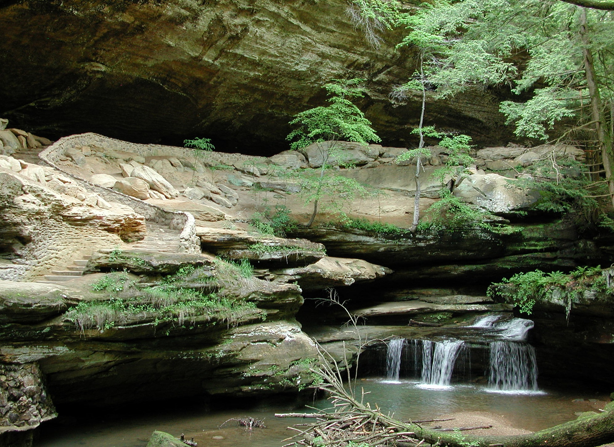 The rock shelter known as Old Man's Cave in the Old Man's Cave Gorge, in the Hocking Hills of Ohio